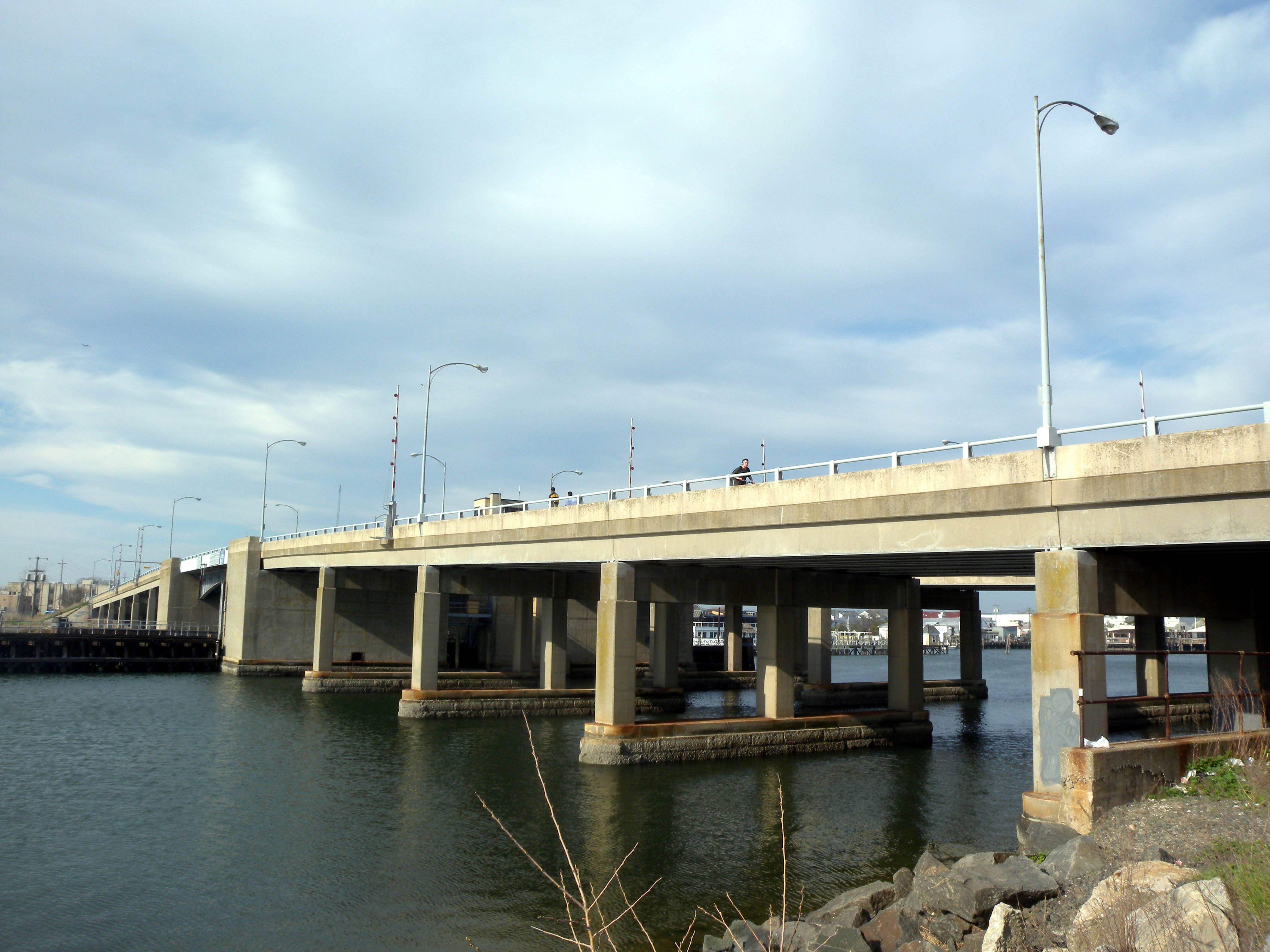 Looking northeast at Long Beach road bridge on a partly sunny afternoon.